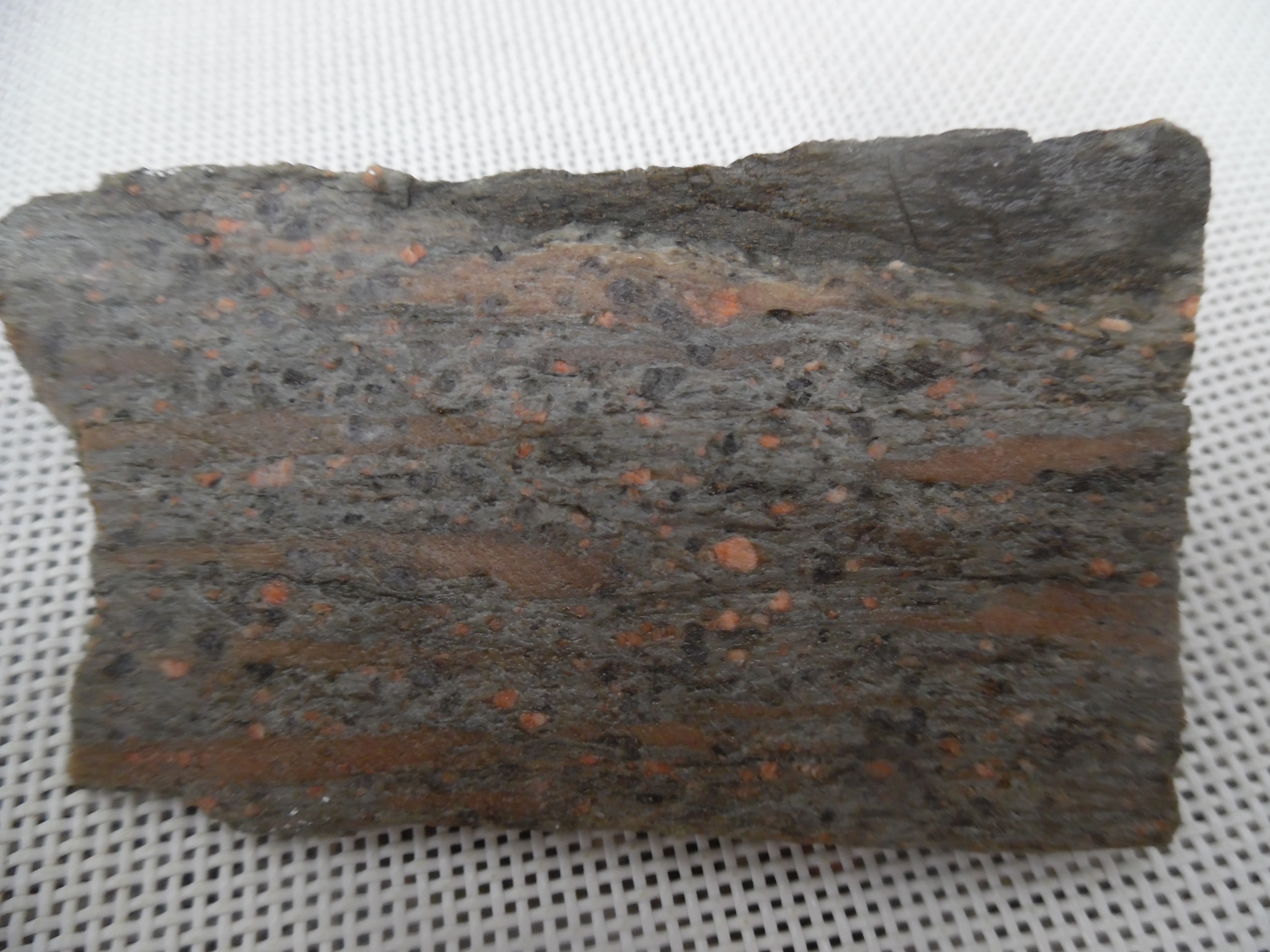 Lower Ordovician Génis porphyroid (metaignimbrite) from the Génis unit, northwestern Massif Central, France. Wet sawcut XZ section.